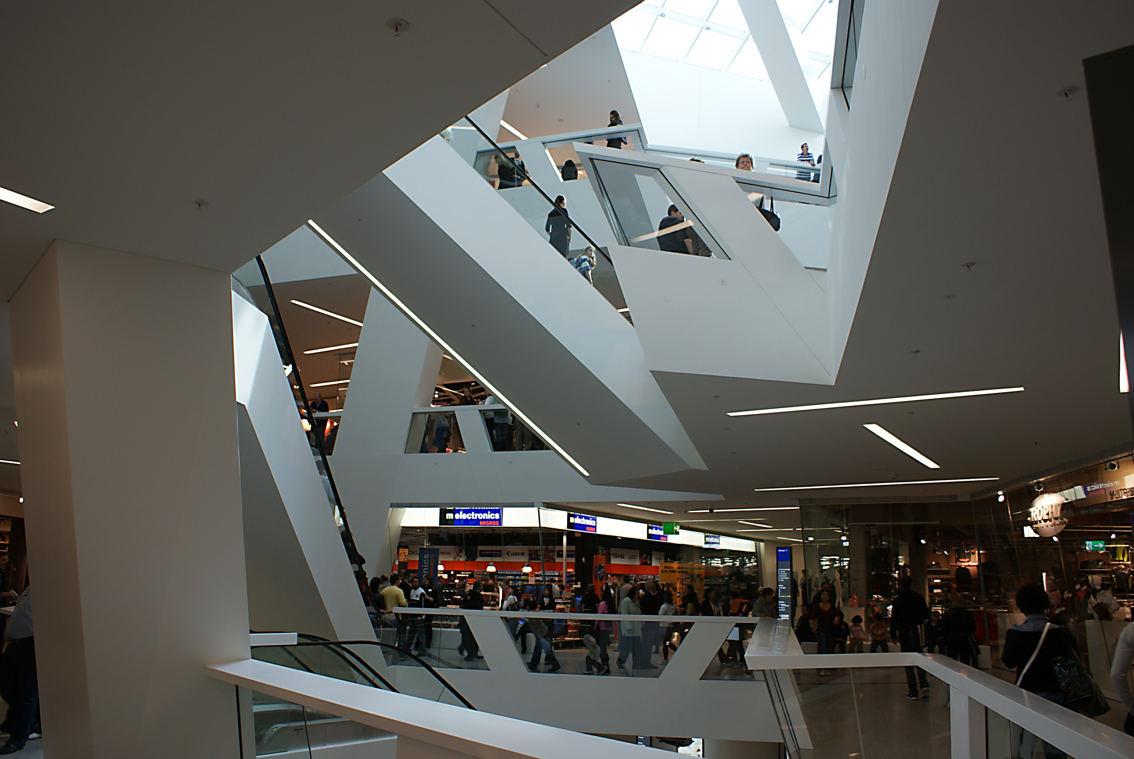 The Westside shopping and leisure complex, in Brünnen, Bern, Switzerland. The building was designed by Daniel Libeskind.